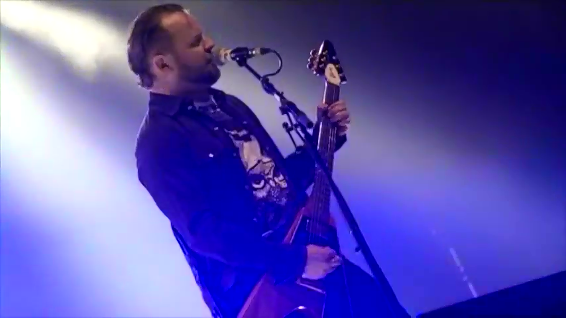 Olav Iversen with Sahg in Breeze Open Air 2014, Dinkelsbühl, Germany